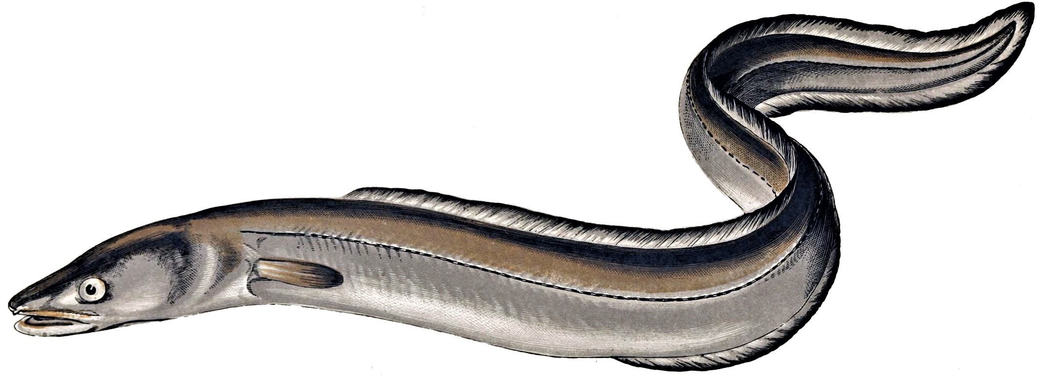 Conger conger